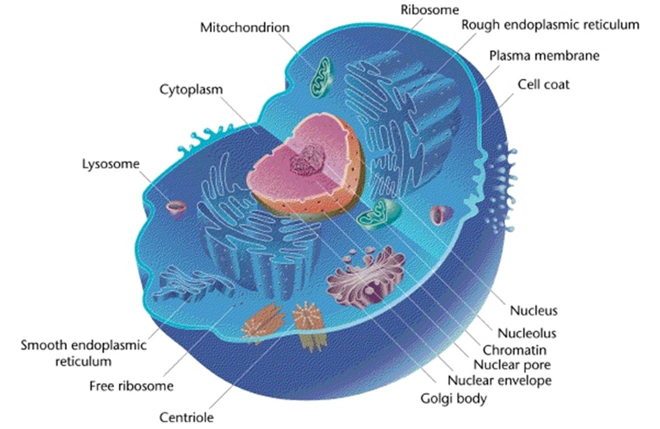 A typical animal cell with labeled organelles.